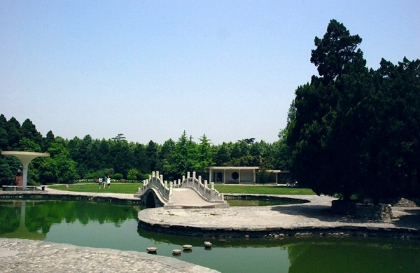 East garden in Xian Jiaotong University main campus